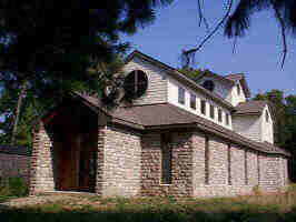 A picture (I took) of St. Augustine's House Lutheran Monastery in Oxford Michigan.